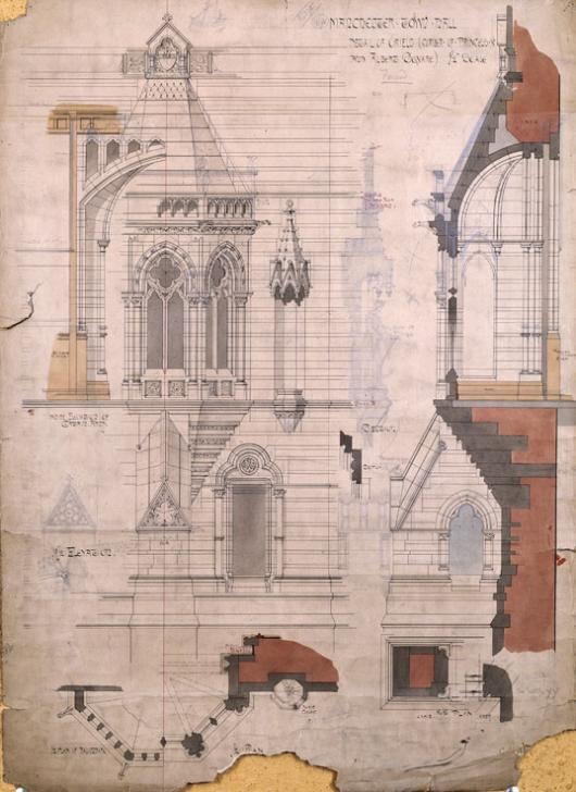 Working drawings of a detail of the proposed Manchester Town Hall